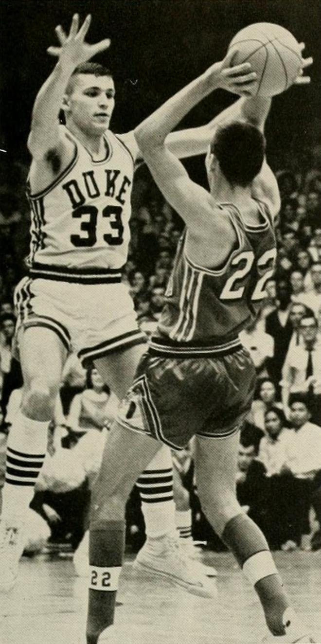 A scan from the 1965 edition of the Chanticleer, the yearbook of Duke University